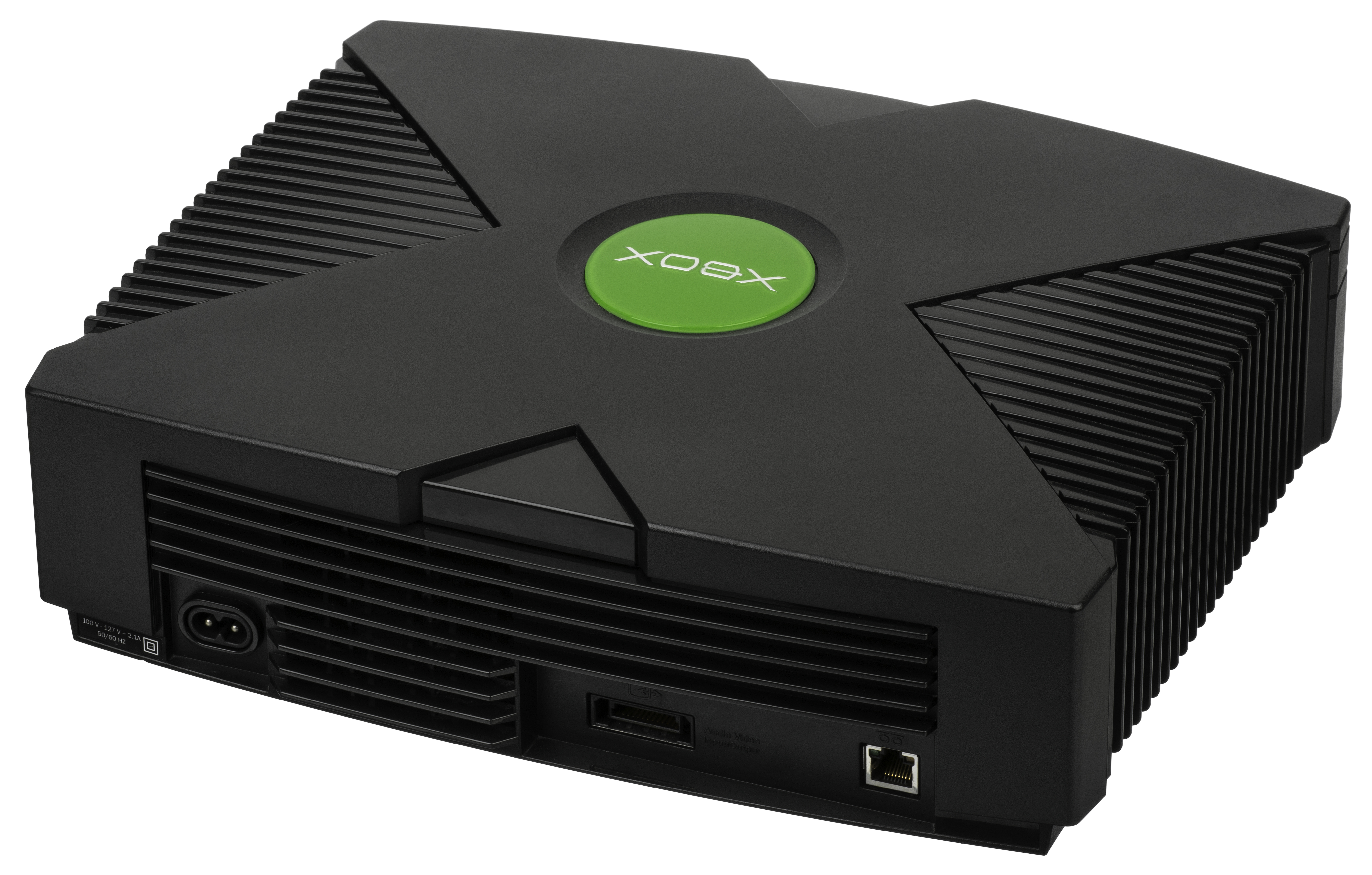 The Xbox, a sixth-generation gaming console made by Microsoft that was first released in 2001. The Xbox was Microsoft's first foray into the gaming console market, and was followed by the Xbox 360 in 2005. The console is notable for having a built-in hard drive, breakaway controller dongles and an Ethernet port to support Microsoft's online gaming service, Xbox Live.